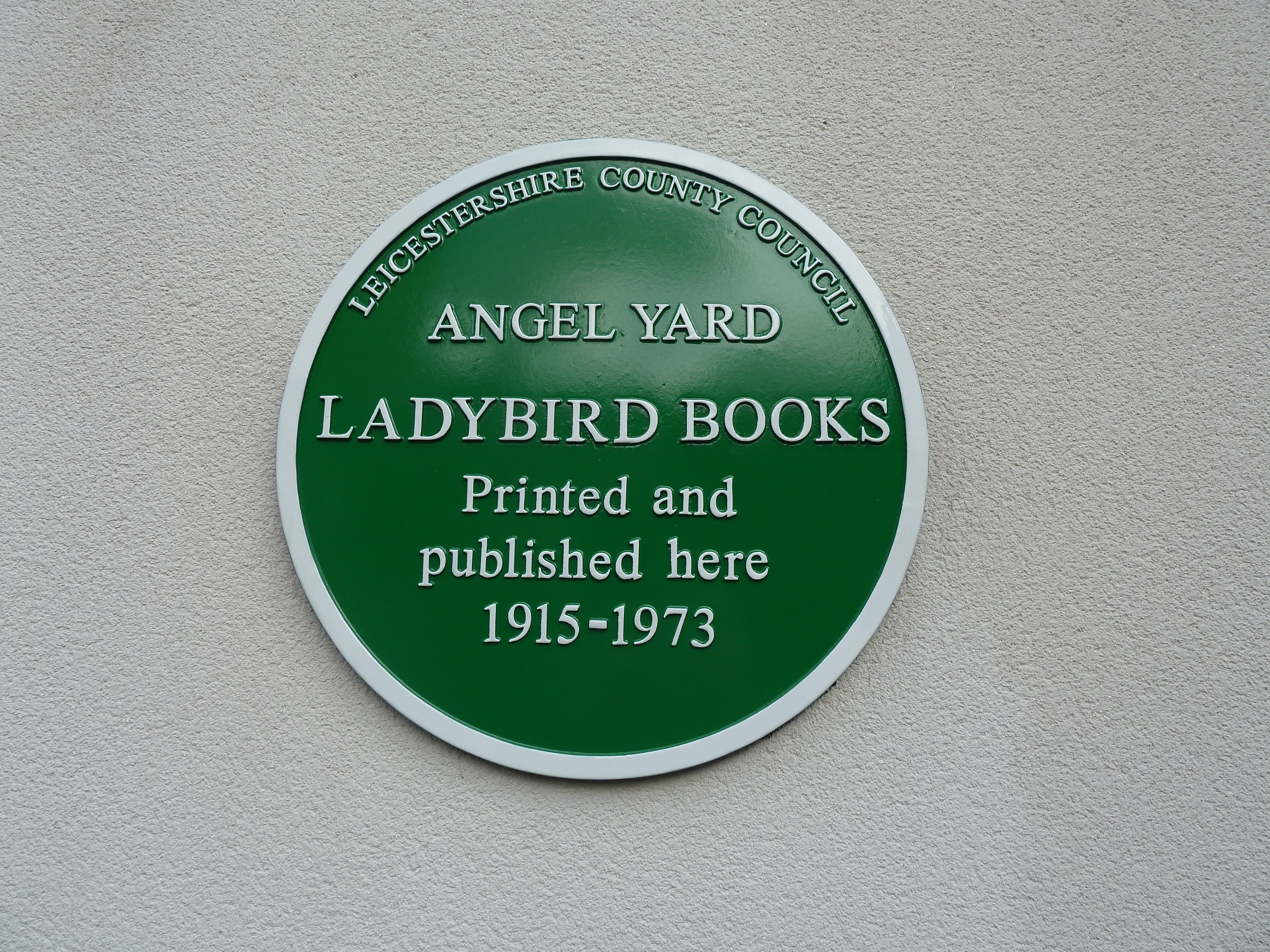 A green plaque was erected on 31st July, 2015 to celebrate one hundred years of ladybird books the company started in the town of Loughborough, Leicestershire in 1915